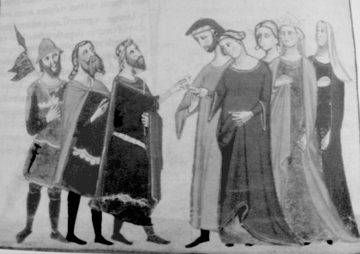 Edward I of England and Margaret of France